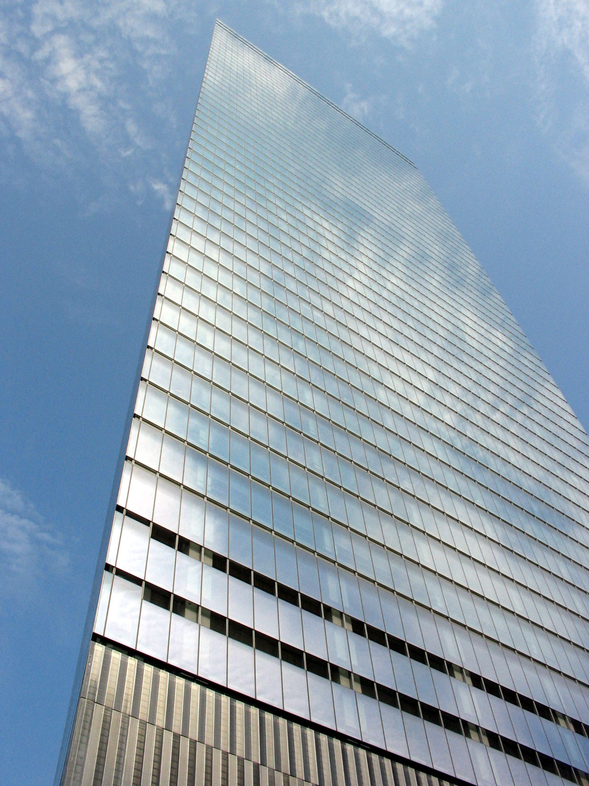 New World Trade Center 7 building, from the ground